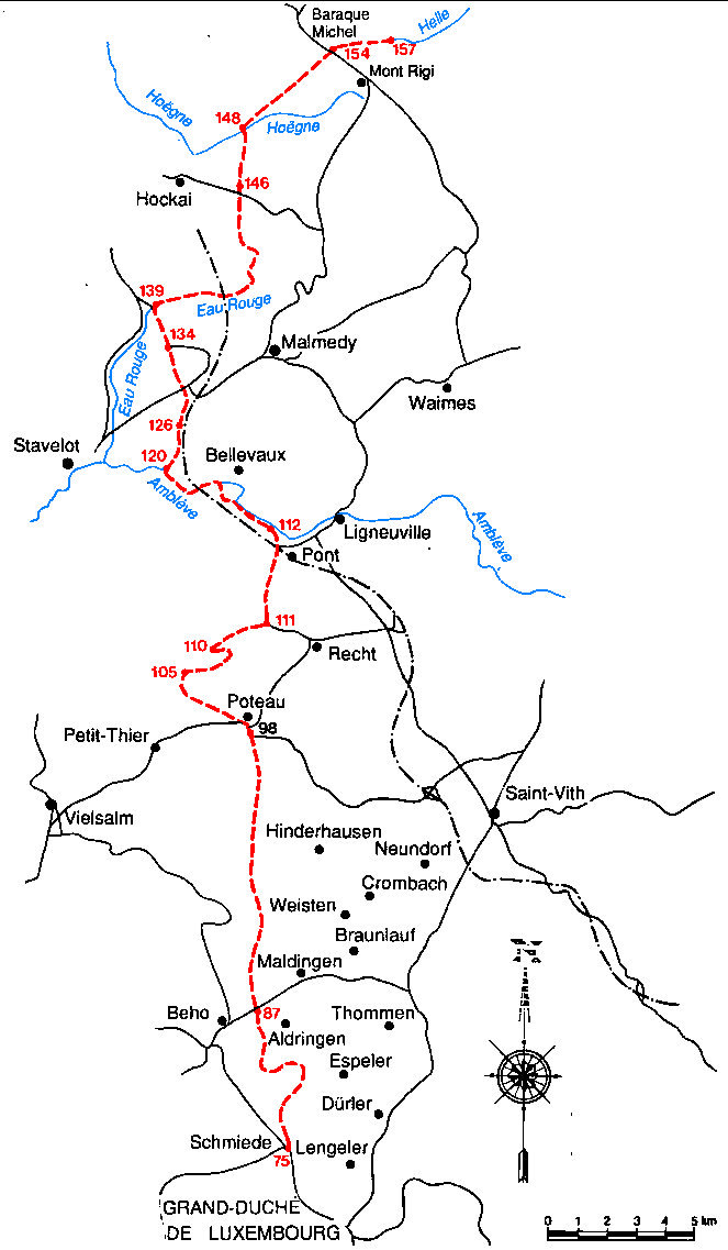 Belgo-Prussian frontier before 1919